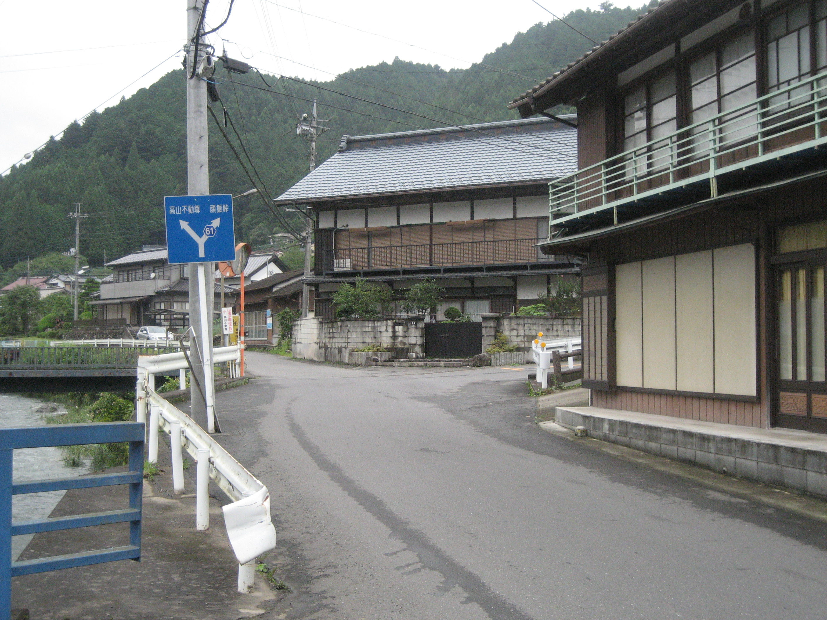 The Saitama Prefectural Road Route 61 in Hanno City